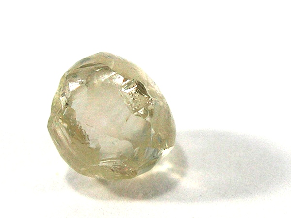 Diamond Locality: Premier Mine (Cullinan Mine), Cullinan, Pretoria, Gauteng Province, South Africa (Locality at ) A very intricate diamond shaped like a geodesic sphere, with faces upon faces. BETTER and more GEOMETRIC IN PERSON! It has a slight straw-yellow color to it and is much better in person! 4 x 4 x 4 mm